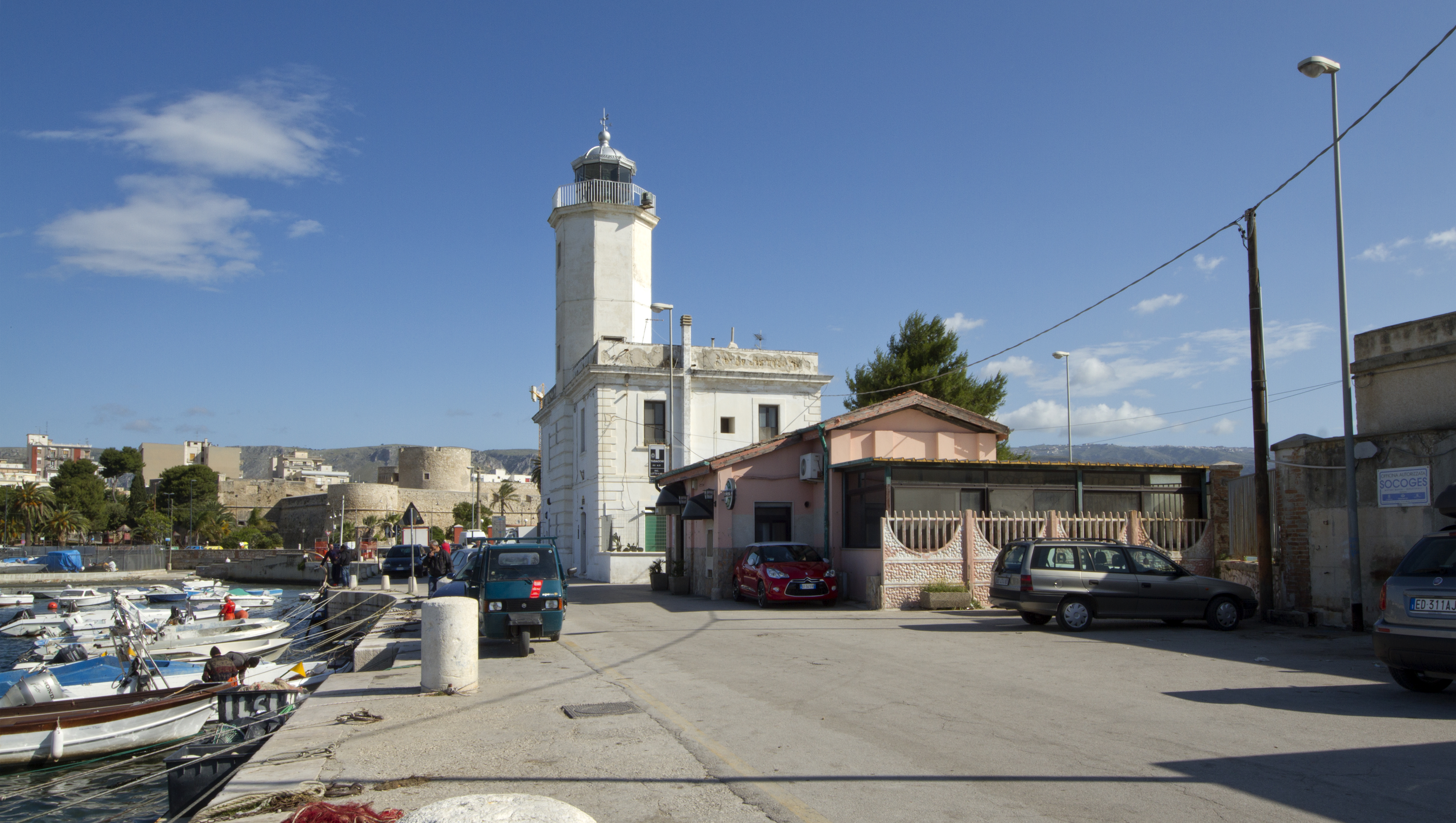 Manfredonia, Province of Foggia, Italy